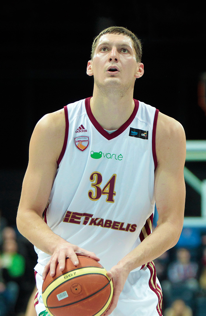 Basketball player Egidijus Dimša